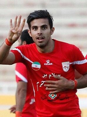 shahinsaqebi8